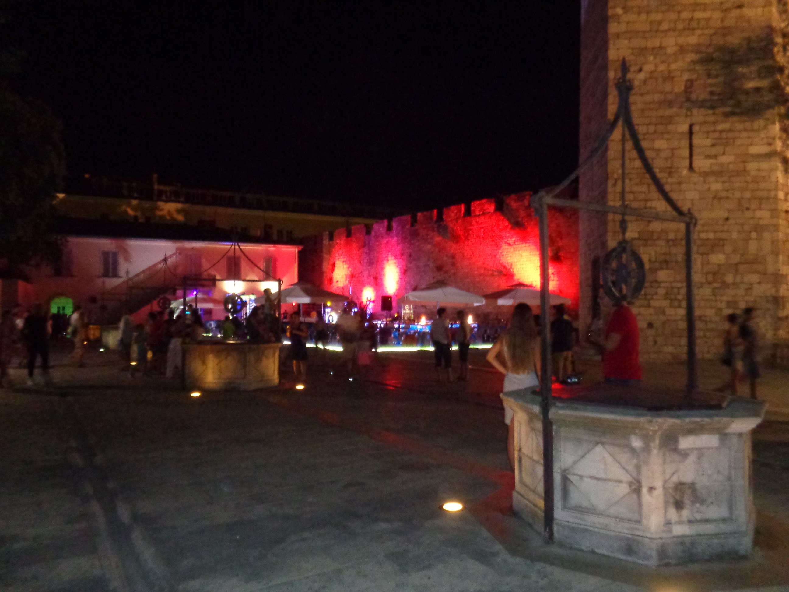 Zadar, Croatia - Five Wells Square in the evening